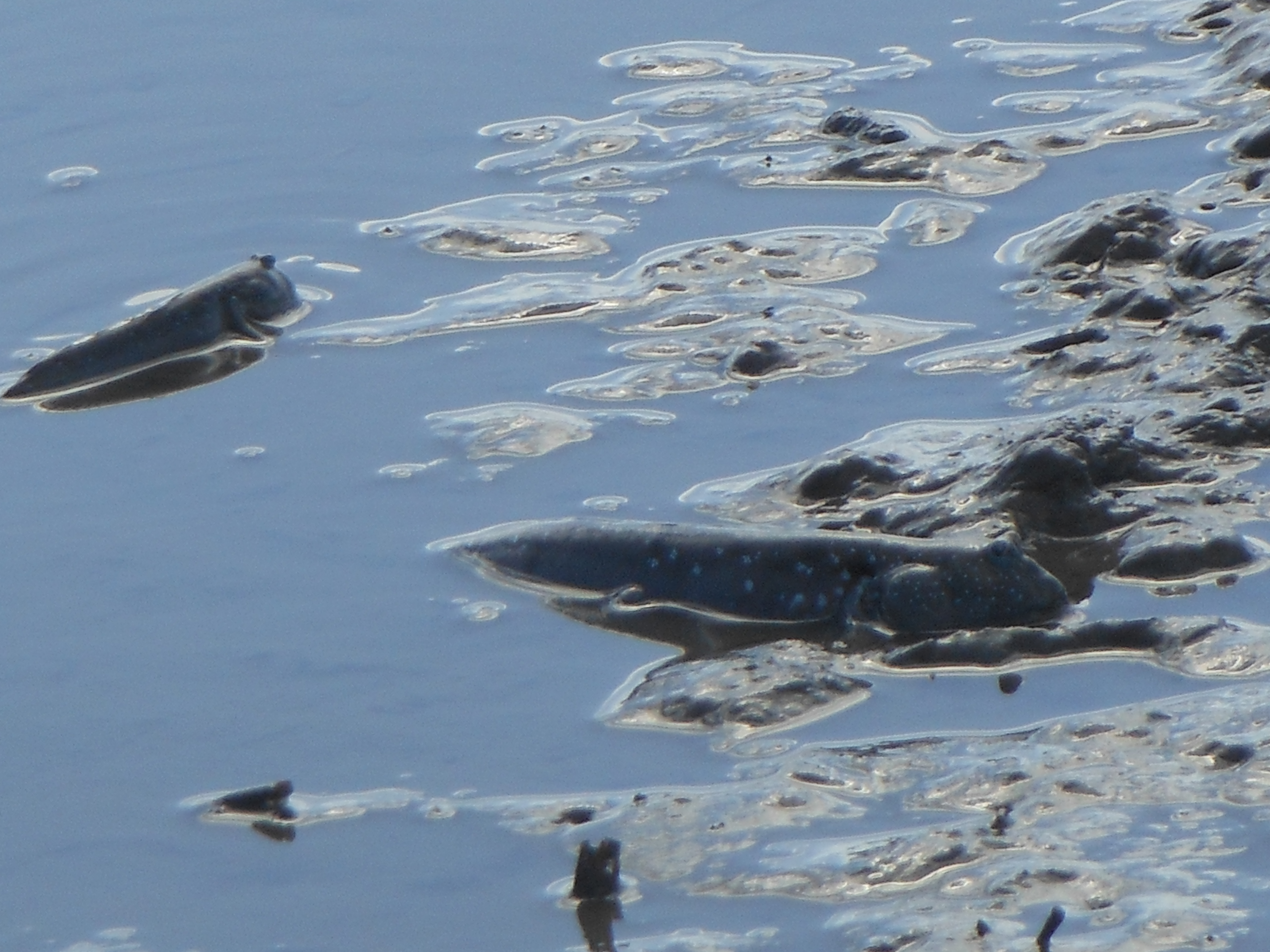 A pair of Boleophthalmus pectinirostris, in Higashiyoka coast, Saga city, Saga prefecture, Japan.